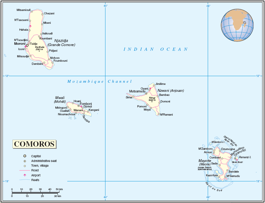 Map of Comoros and Mayotte About the maps: The United Nations cartographics section claims: Unless otherwise noted, the maps included on this web site are produced by the Cartographic Section and are copyrighted by the United Nations. Reproduction of any part without the permission of the copyright owner is unlawful. Reproduction of any part without the permission of the copyright owner is unlawful. Please contact us for any questions regarding publication permissions.